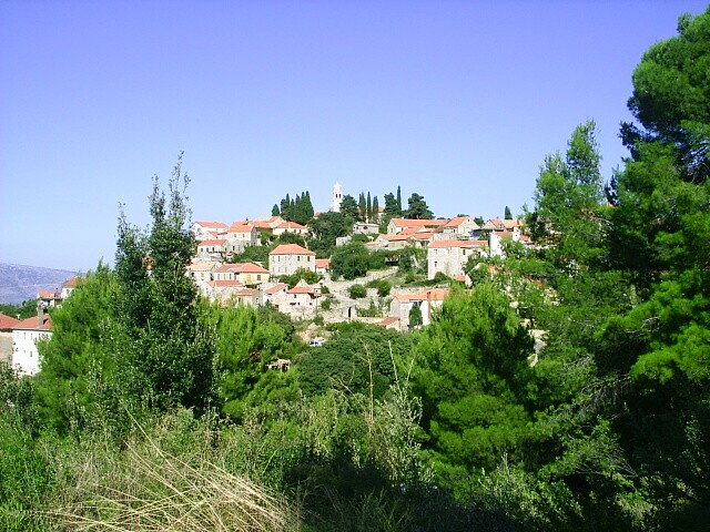 Hvar Island, Croatia